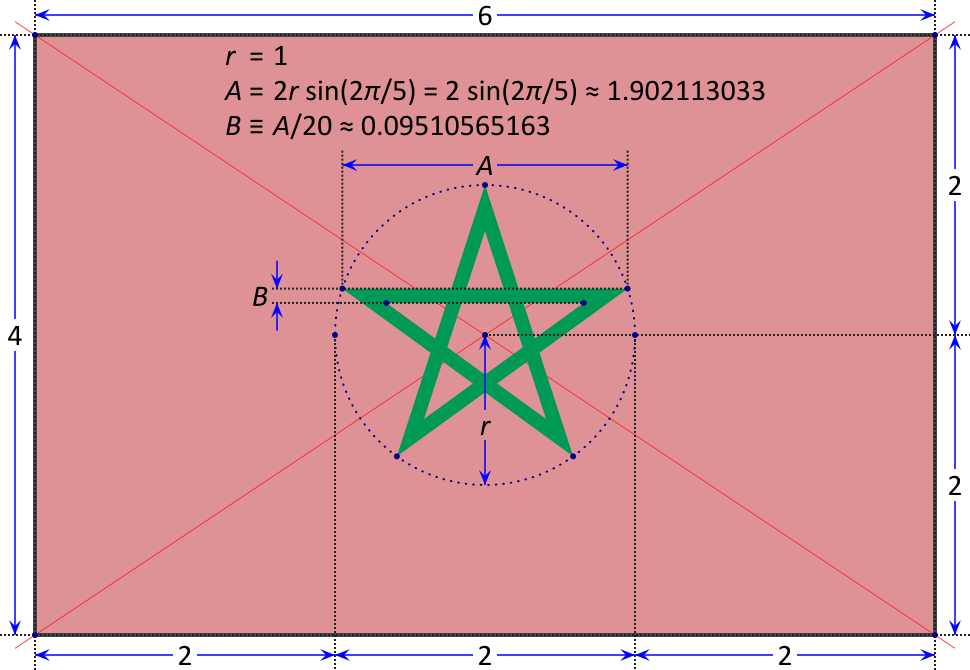 Construction sheet of the Flag of Morocco according to Dahir 1-05-99 (link)